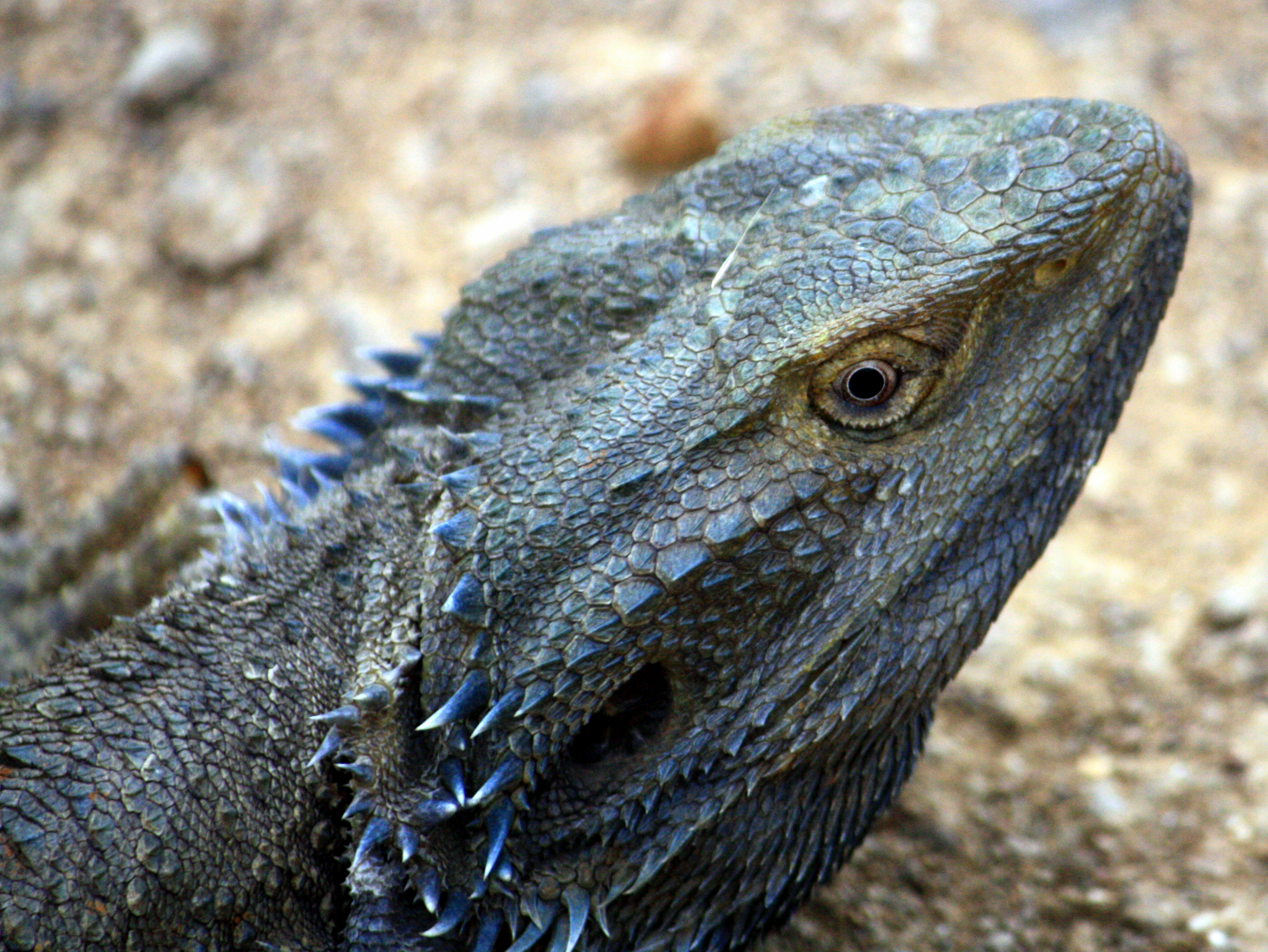 Eastern Bearded Dragon (Pogona barbata) on Yango Creek Road Wollombi